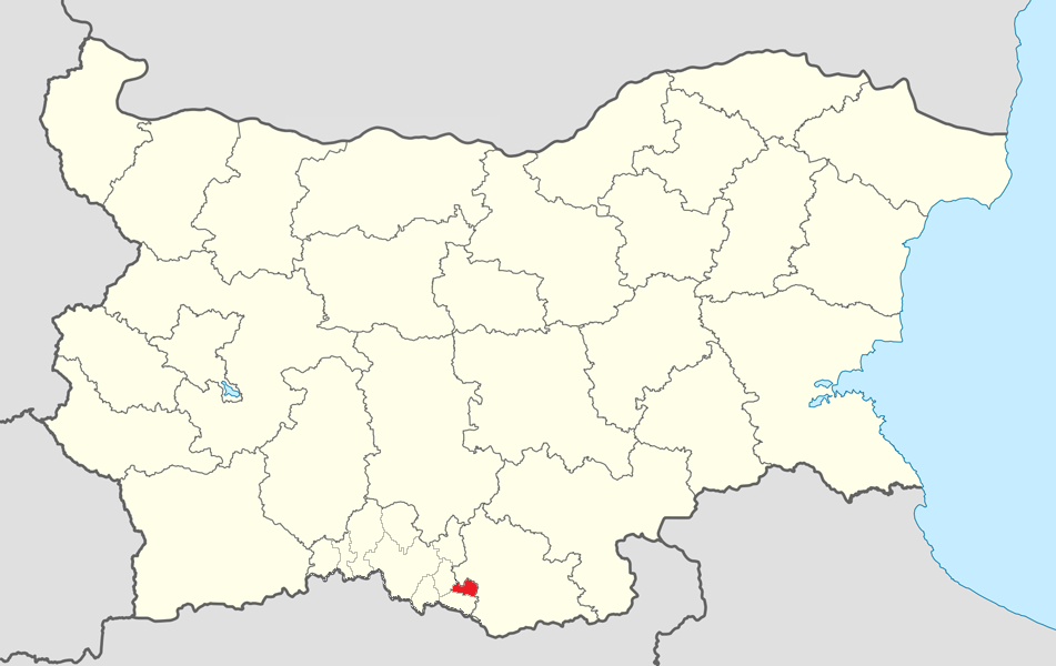 Location map of Nedelino Municipality within Bulgaria and Smolyan province